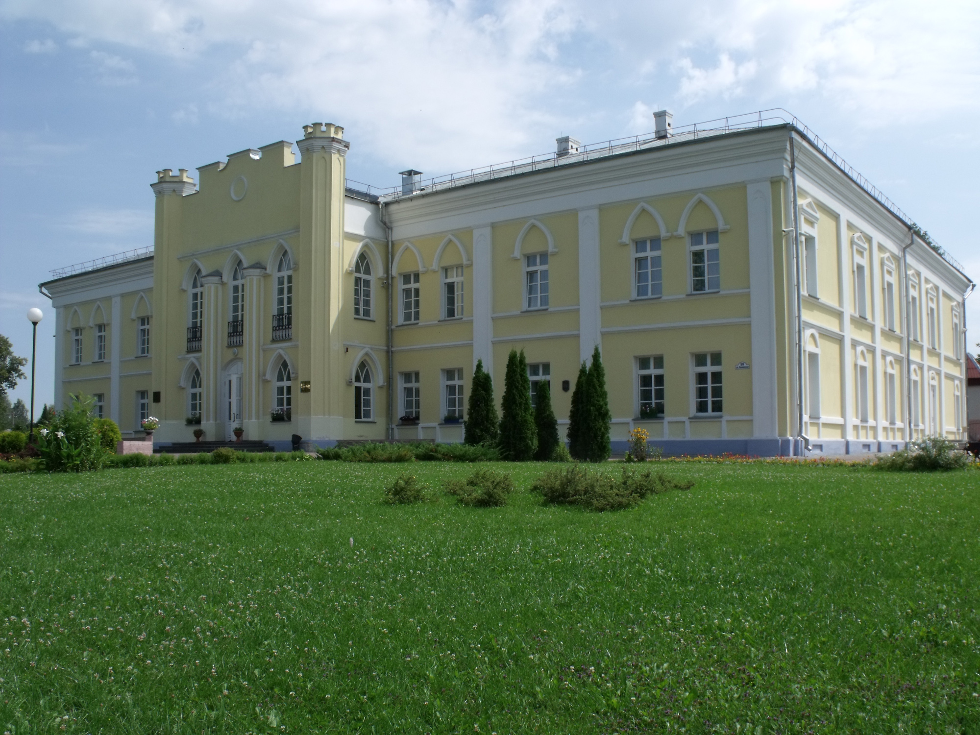 Беларуская (тарашкевіца): Былы палац Пацёмкіна. г. Крычаў This is a photo of Belarusian heritage monument. Reference number: 512Г000479 ( WLM)